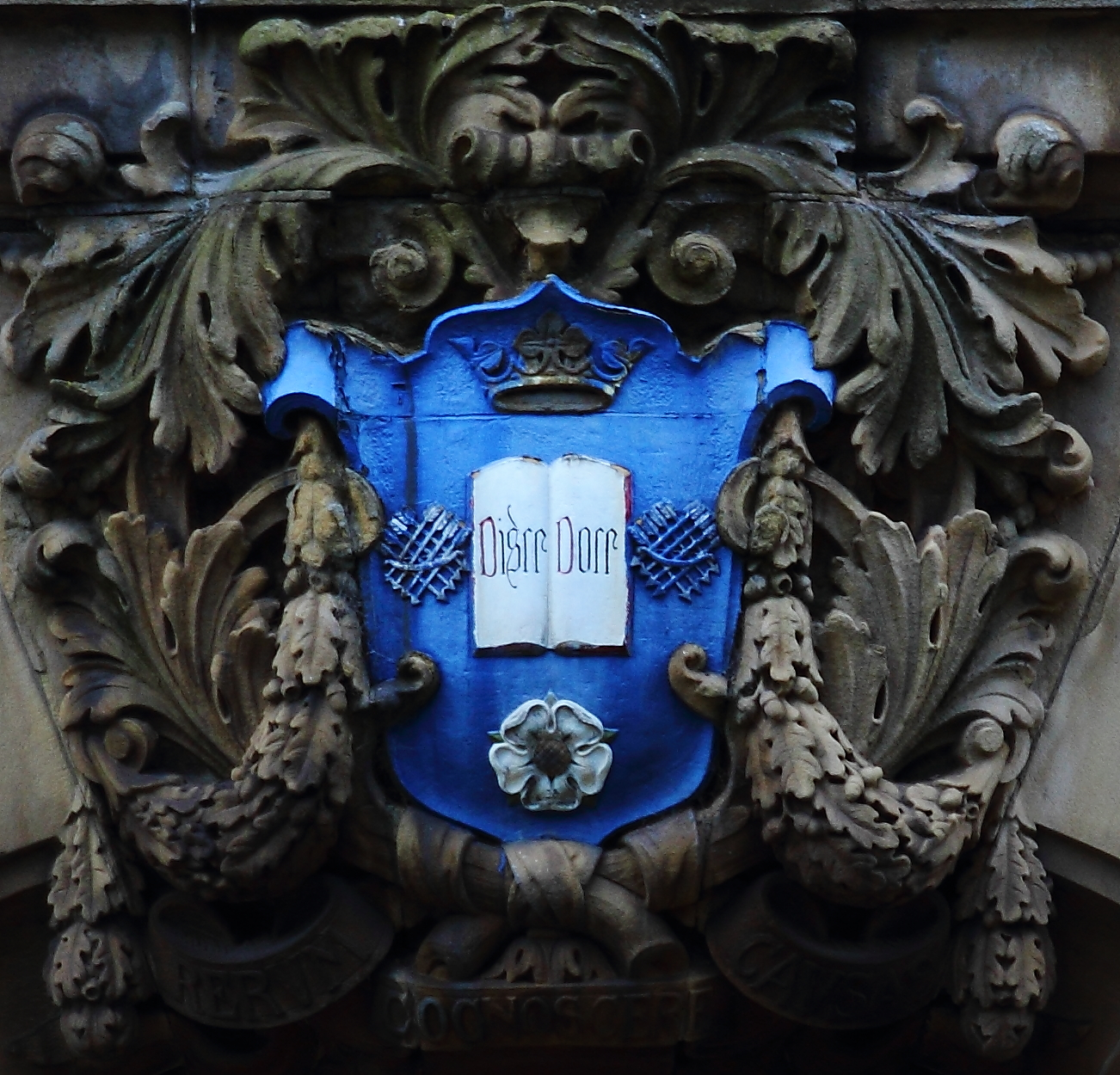 ShefuniCourtofarms